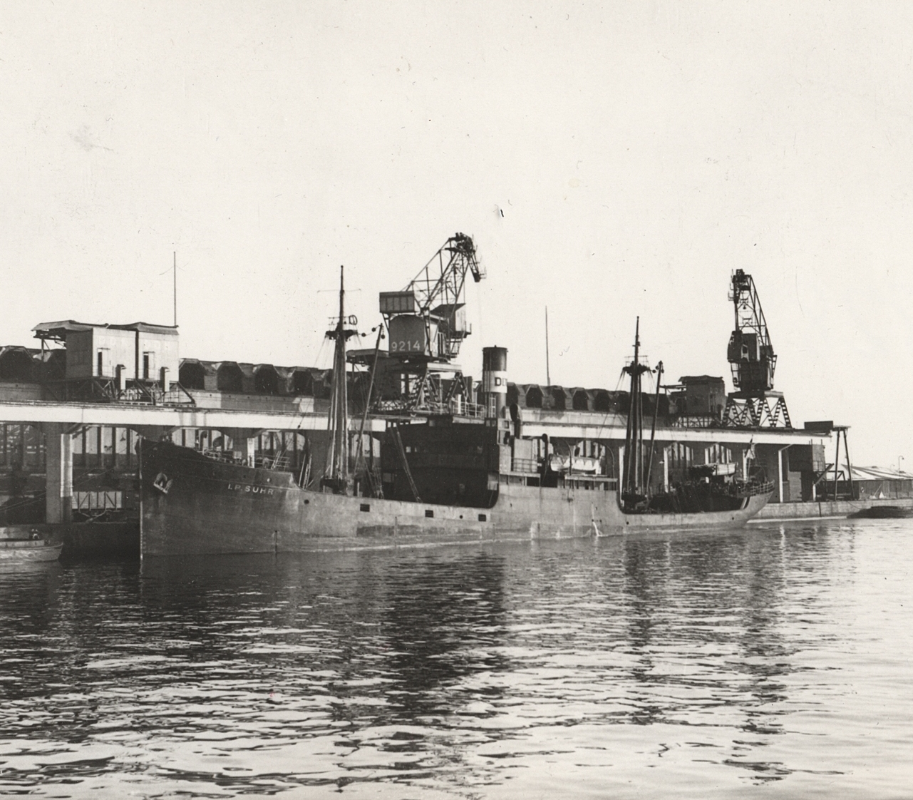 General cargo ship I.P. SUHR built at Ostseewerft, Stettin-Frauendorf (yard № 13, launched: 18-12-1926, completed: 03-1927, into service: 21-03-1927) as SIEGMUND, later names: 1929 THIELBEK, 1939 INGRID TRABER, 1945 EMPIRE CONDOVER, 1946 FORNES, 1948 I.P. SUHR, 01-12-1950 capsized and sank Baltic Sea (55.20N/14.05E); collection J. Robert Boman (1926 - 2002) owned by Sjöhistoriska museet.